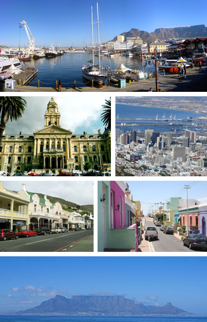 Top: A panoramic view over the Victoria Basin at the V&A Waterfront. Centre left: Cape Town City Hall. Centre Right: Central Cape Town. Middle Left: Historical centre of Simon's Town. Middle Right: Bo-Kaap. Bottom: Table Mountain from Bloubergstrand.